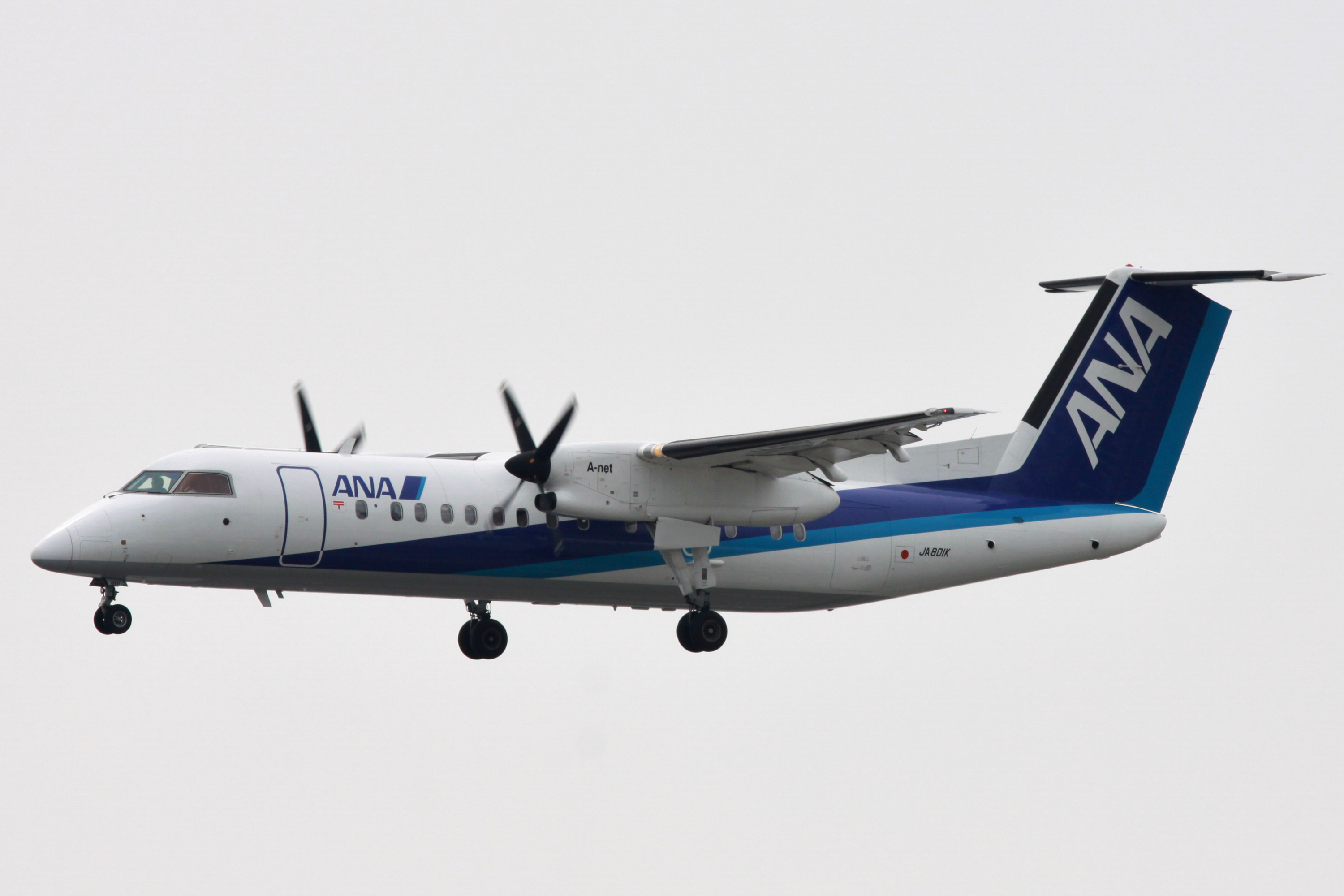 Tokyo International Airport, Bombardier DHC-8-314Q Dash 8, All Nippon Airways, Operated by A-net